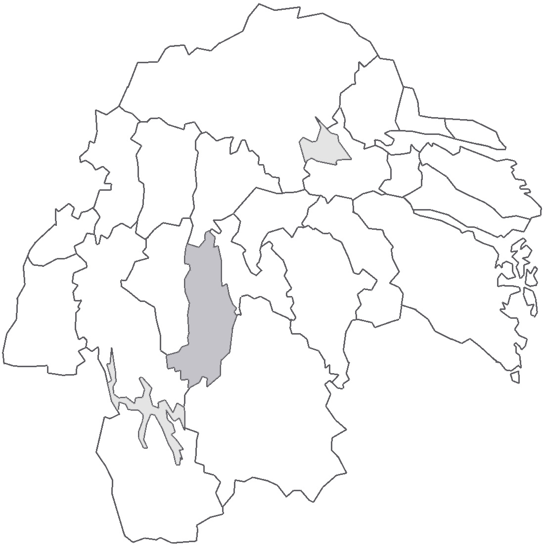 Map describing the location of Valkebo Hundred in Östergötland County, Sweden.